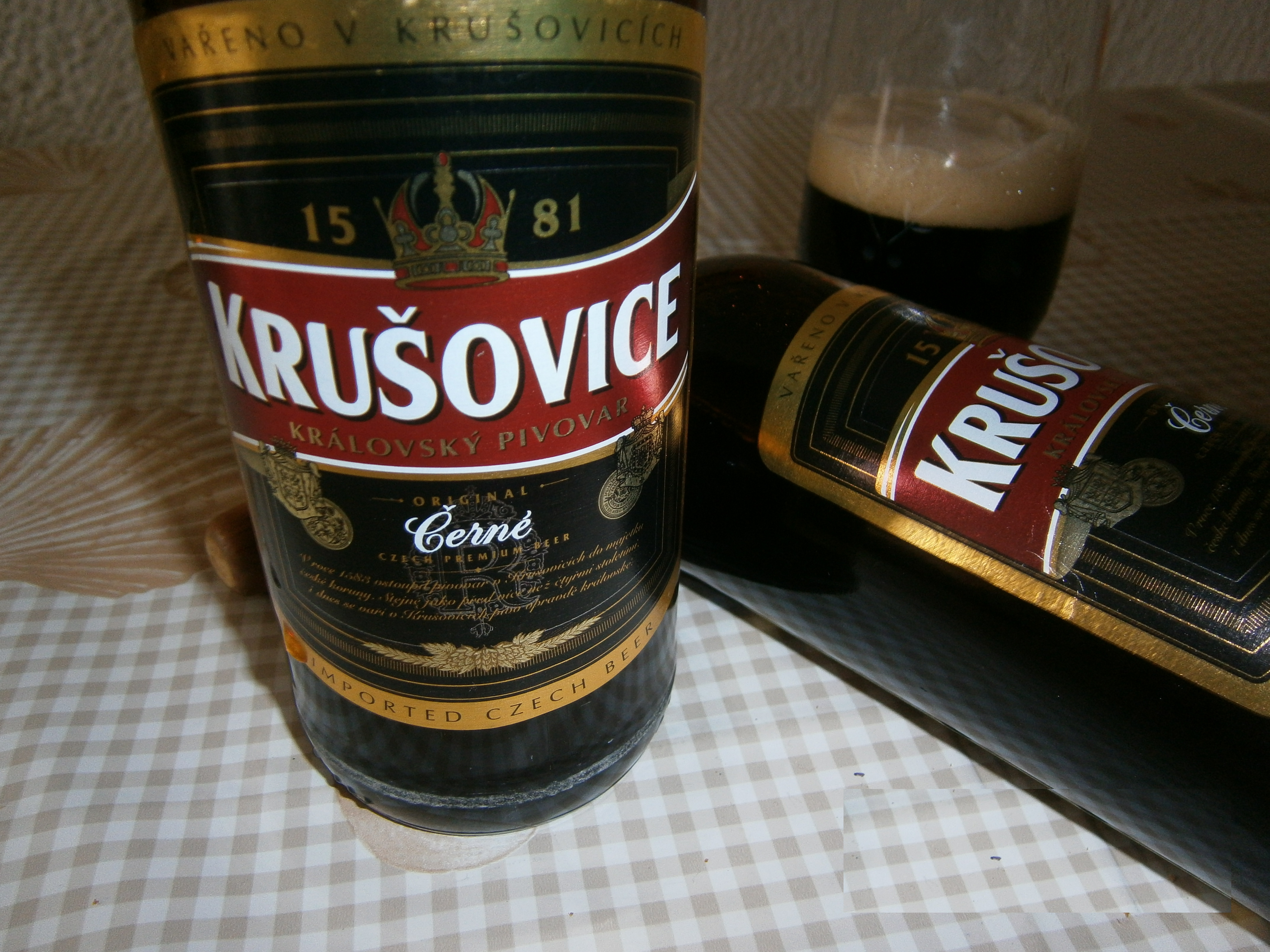 Dark Beer from Krusovice/ Czech Republic